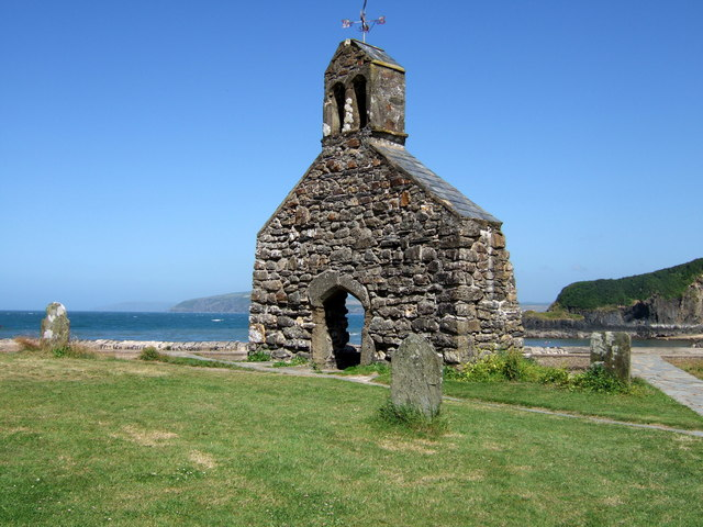 St Brynach's belfrey, Cwm yr Eglwys All that remains of the 6th century church that stood here until destroyed by the sea on October 25th 1869 (the Royal Charter storm). A new church was built higher up the village [ see 201581 ] to replace this one. The retaining wall along the graveyard behind the beach is still subject to wave damage and at times human remains have been washed out of the earth. Not only has the church gone: the cottages here are mostly holiday homes and the hamlet is strangely deserted after the summer with very few permanent residents.